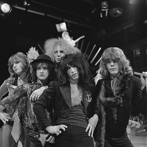 New York Dolls in AVRO's TopPop (Dutch television show) in 1973